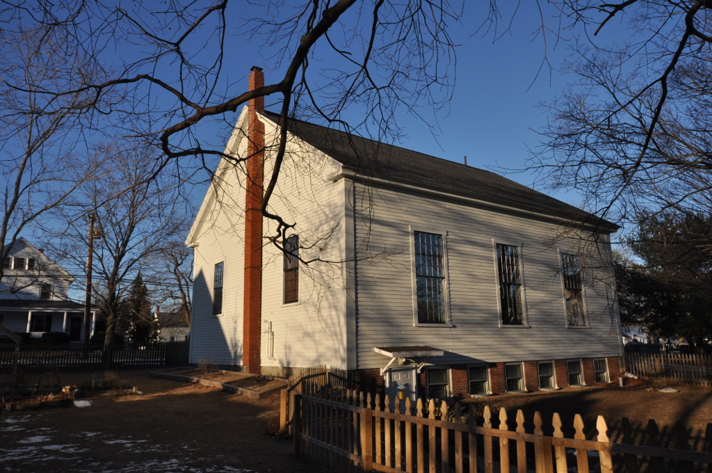 The 1851 Friends Meetinghouse, Amesbury, Massachusetts. Rear and side view.